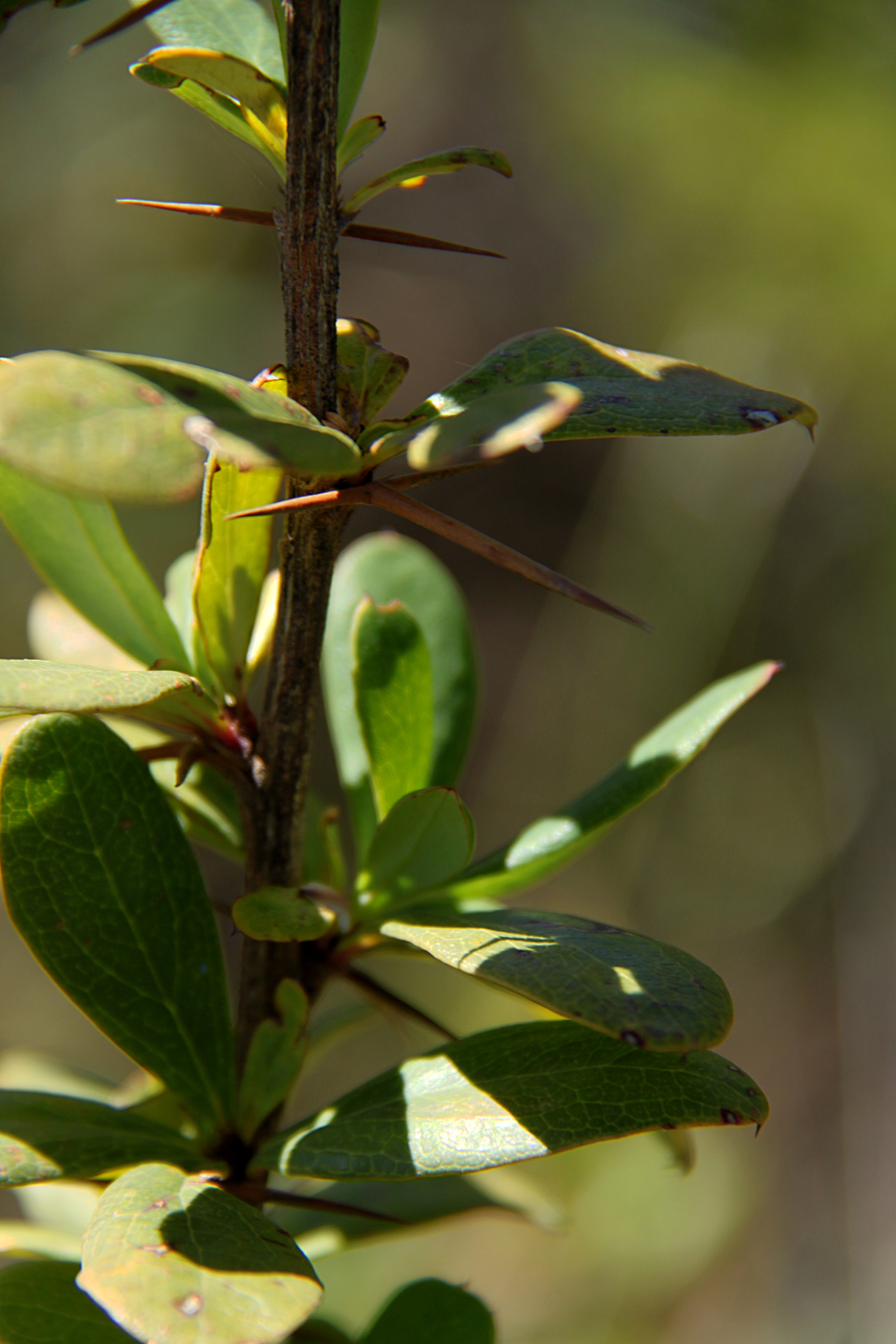 Berberis holstii carrying leaves and thorns, about 1 m high, leaves 2-3 cm long, photographed along the Chogoria route, Mount Kenya, at approximately 3050 m altitude